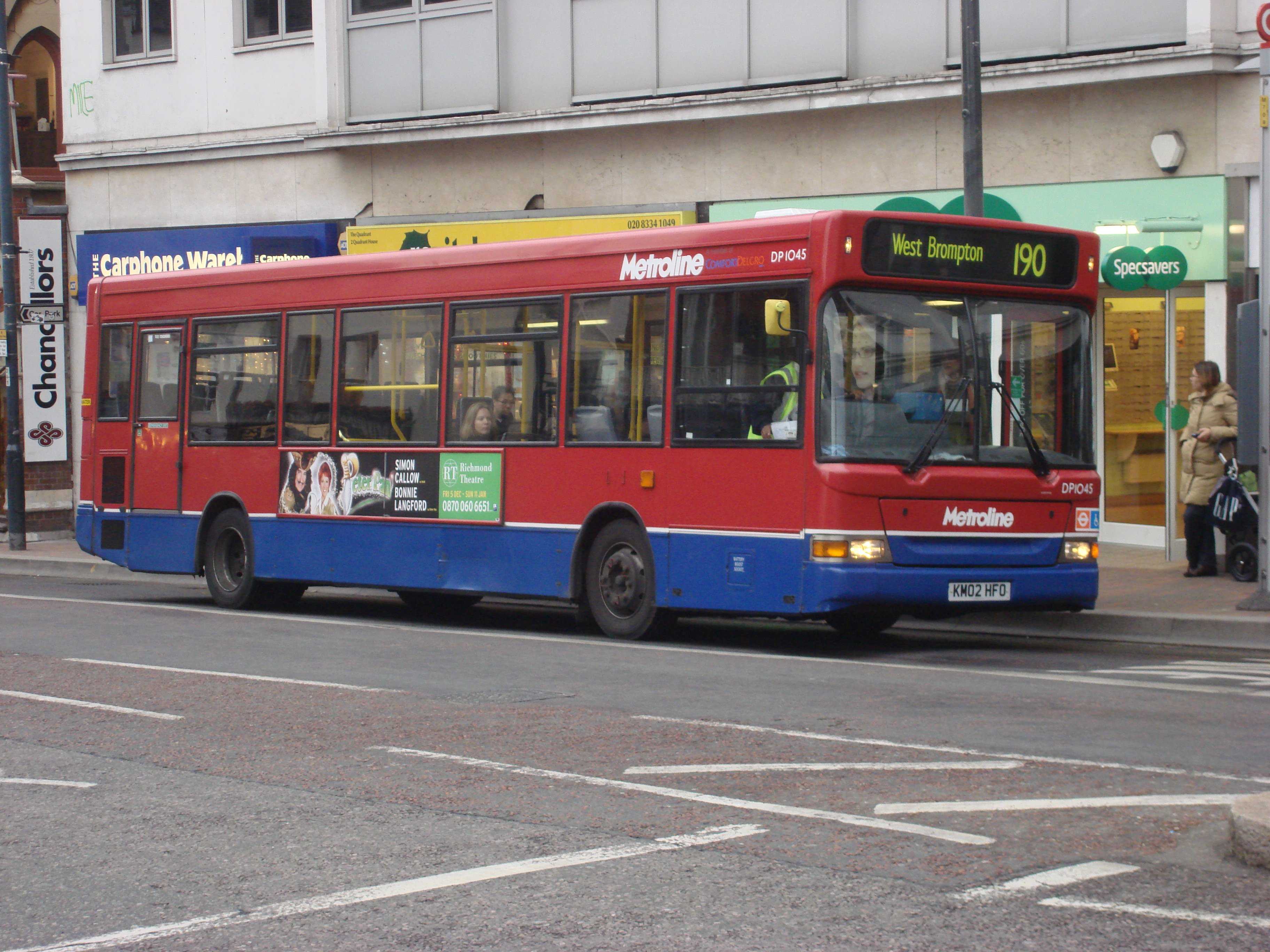 Metroline's DP1045 (KM02 HFO), a Dennis Dart SLF/Plaxton Pointer 2 on London Buses route 190 in Richmond, London.